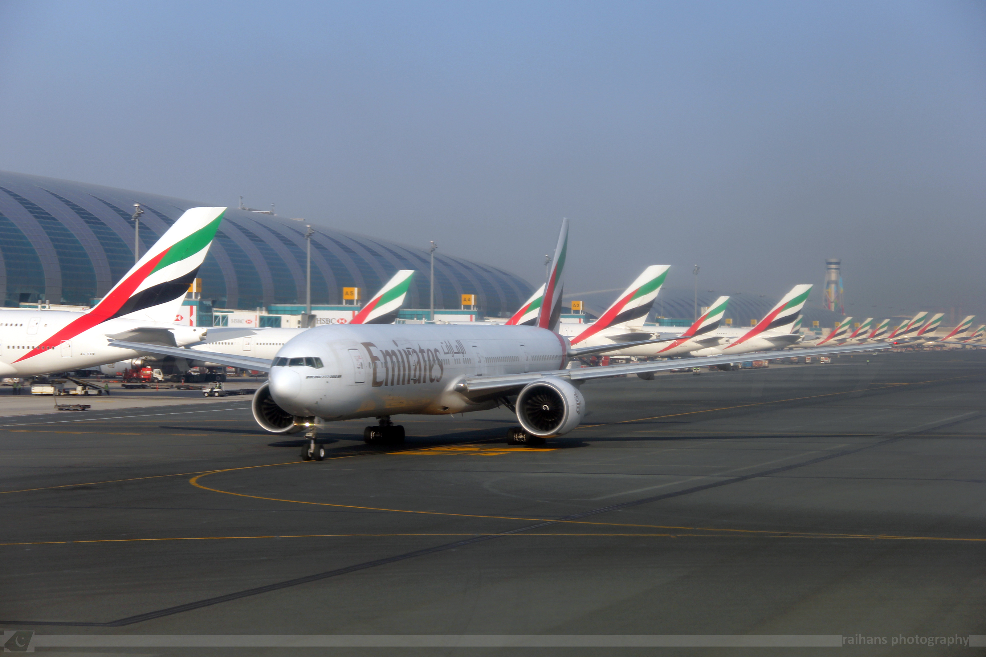 An extreme busy morning for Emirates, sistership B77W Bravo Mike taxiing out for departure while our B77W Bravo Echo taxi out for departure to Kuwait KWI/OKBK, taken at Dubai International Airport DXB/OMDB, Dubai, United Arab Emirates